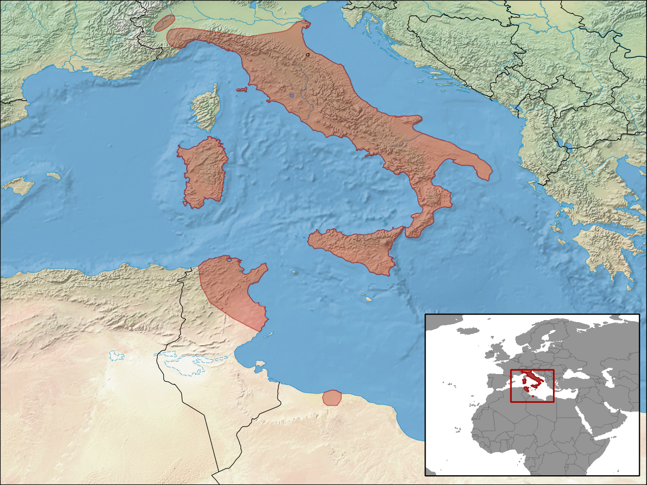 geographic distribution of Chalcides chalcides